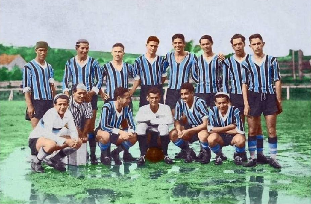 Grêmio FBPA squad in 1932.